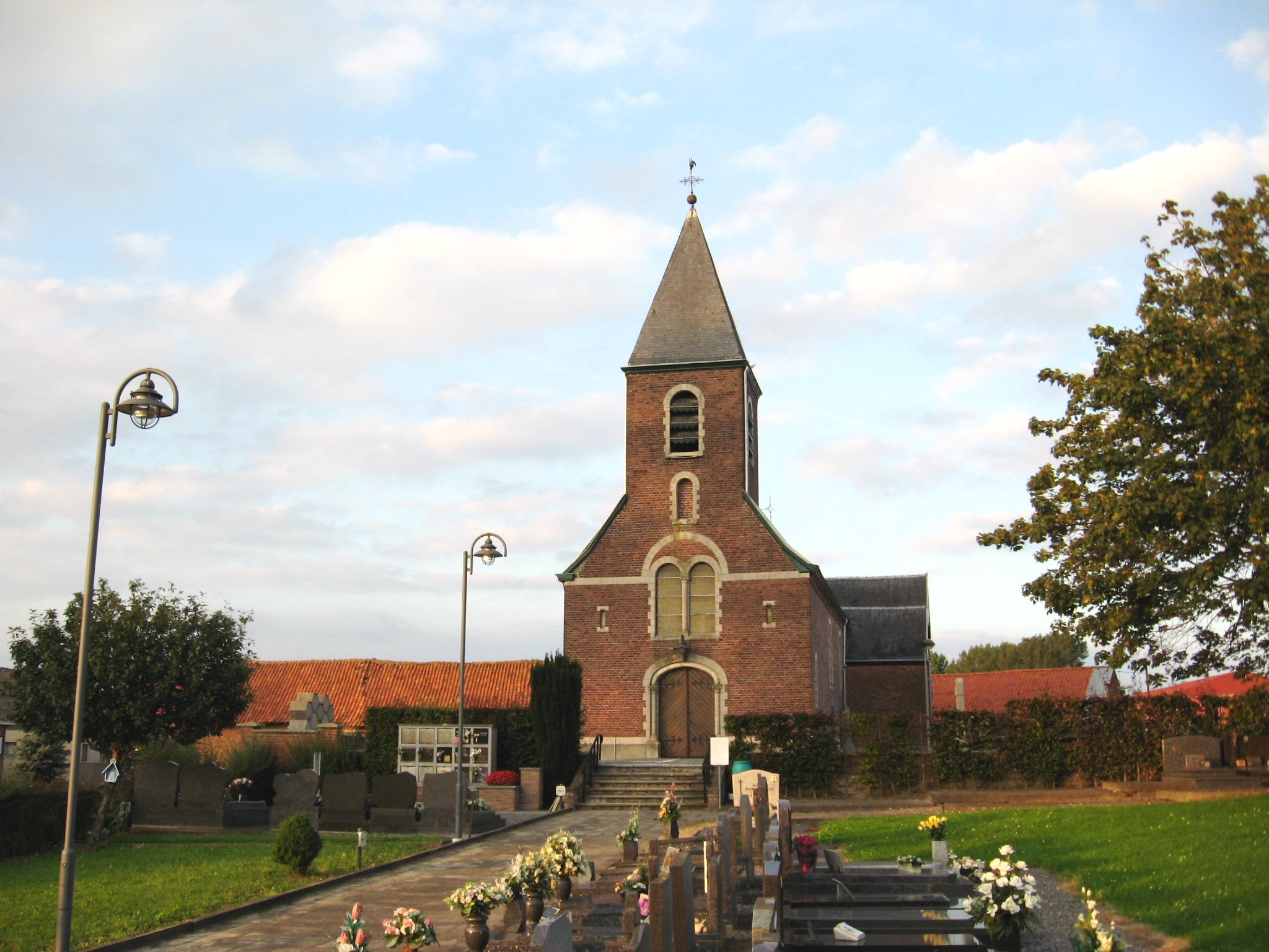 Church of Saint Peter and Paul in Halmaal, Sint-Truiden, Limburg, Belgium